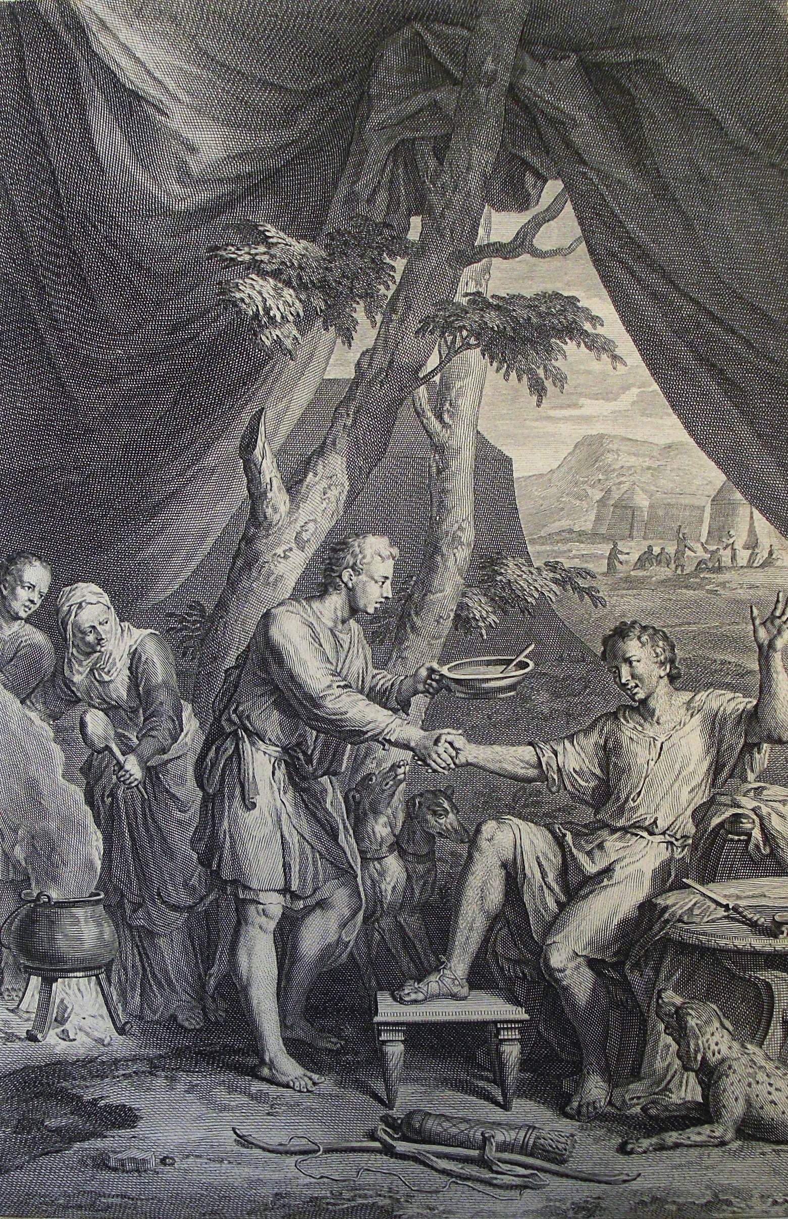 In the collection of Revd. Philip De Vere at St. George’s Court, Kidderminster, England.